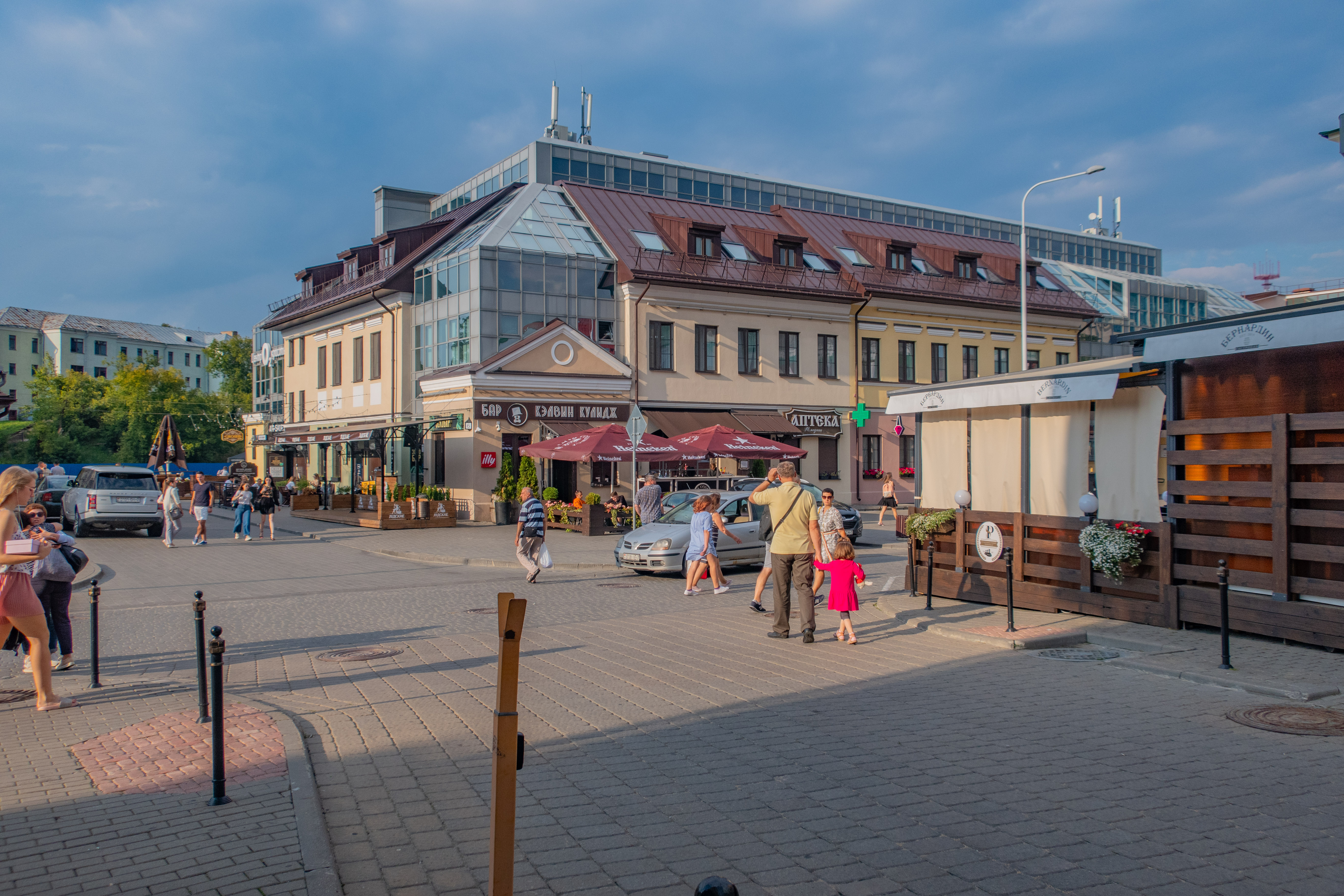 Zybickaja street. Minsk, Belarus